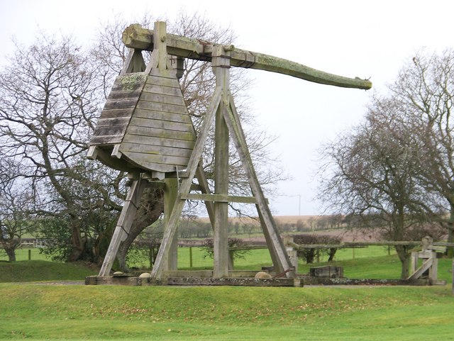 Caerlaverock Castle - replica trebuchet In the 14th century, stone throwing equipment like this was used to bring an end to a siege.